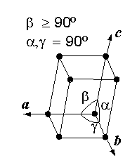 Unit cell of the monoclinic primitive crystal lattice.